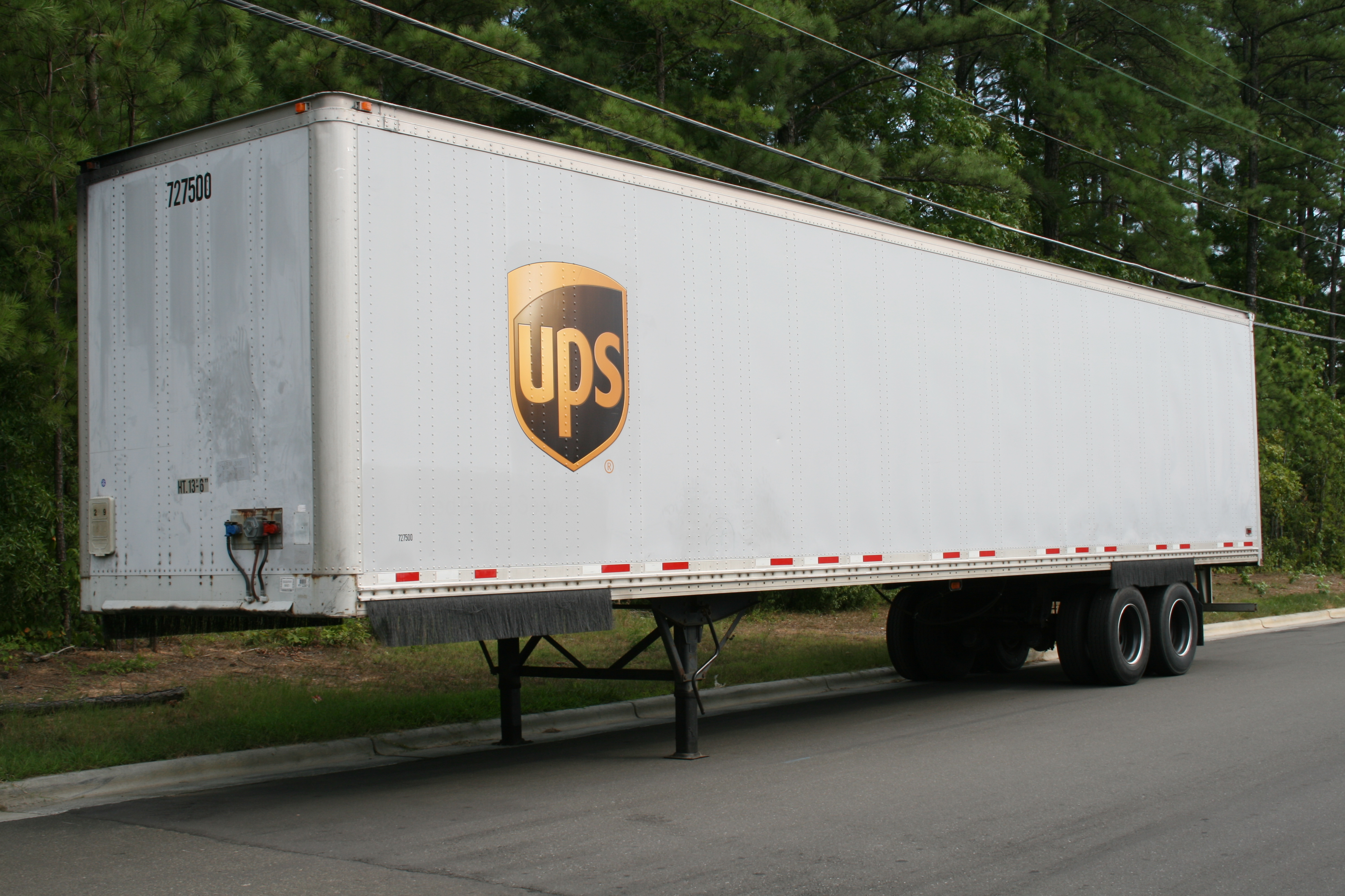 Trailer parked on Fay St adjacent to the UPS facility in Durham, North Carolina.